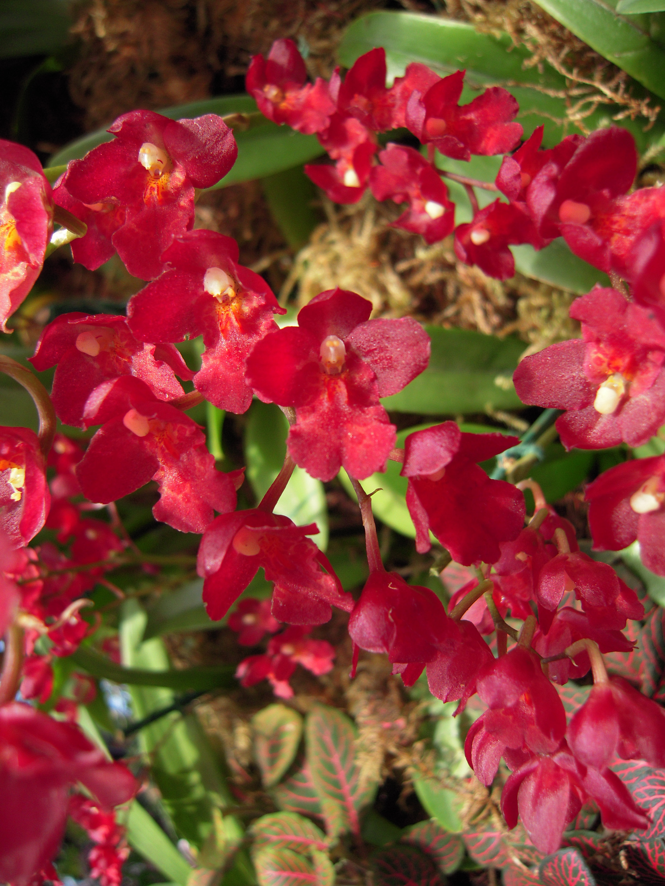 Howeara Lavaburst